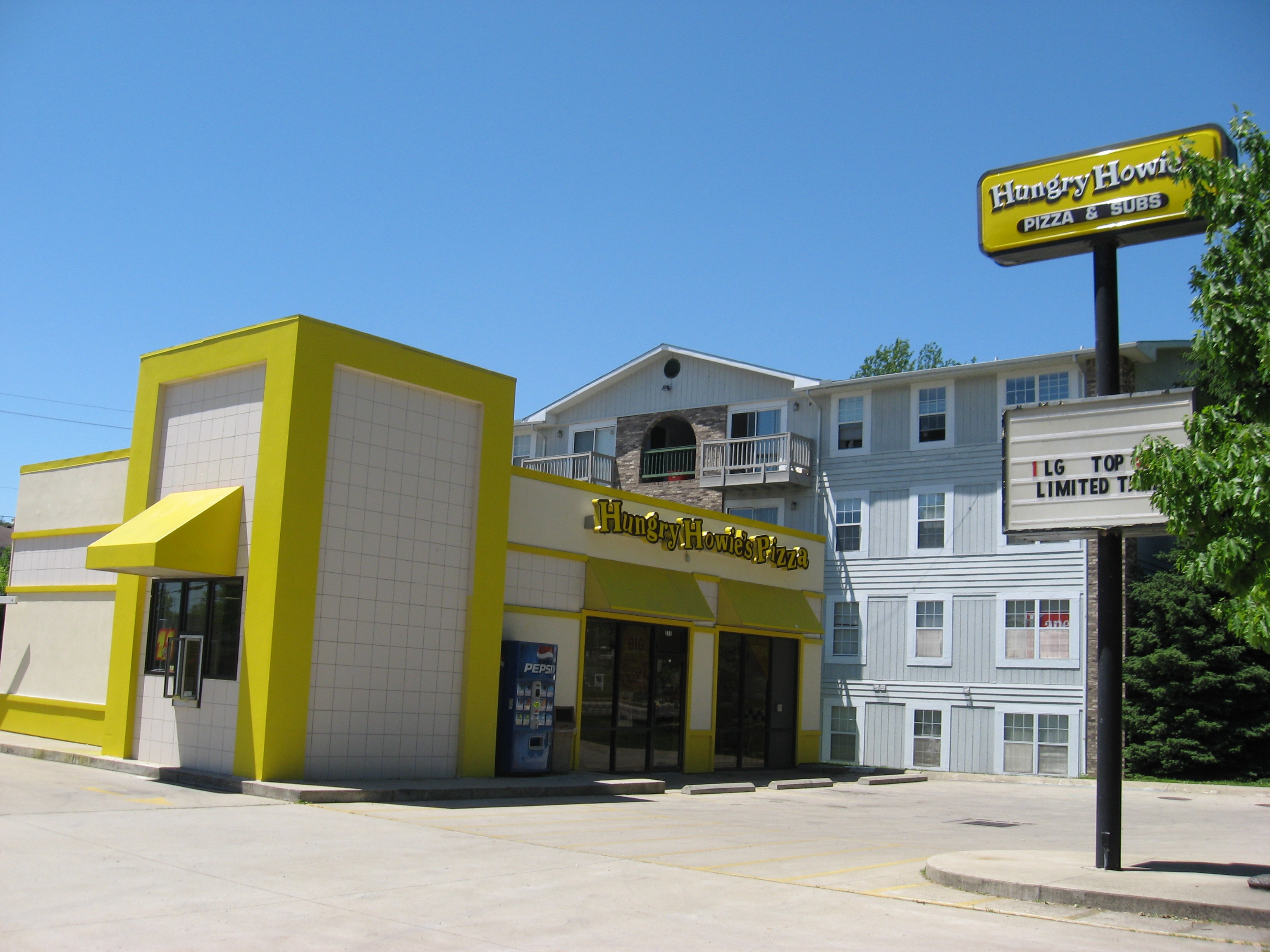 Hungry Howie's Pizza Restaurant (Athens, Ohio, USA)